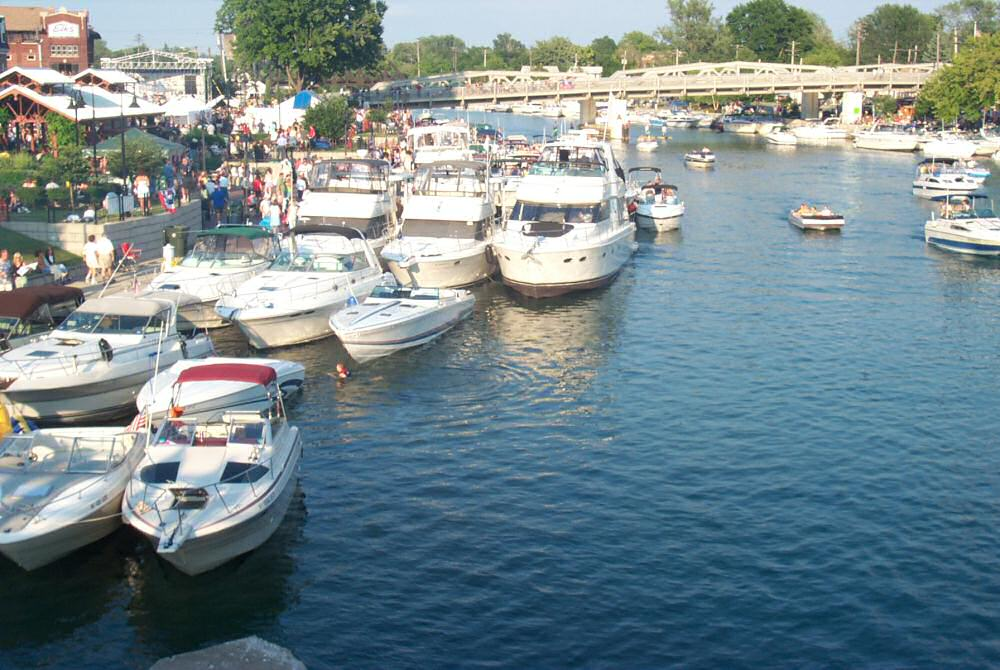 A number of boats are docked to the North Tonawanda side of Gateway Harbor during a summer Canal Concert. This image was uploaded by Brandon Peterman, the photographer.